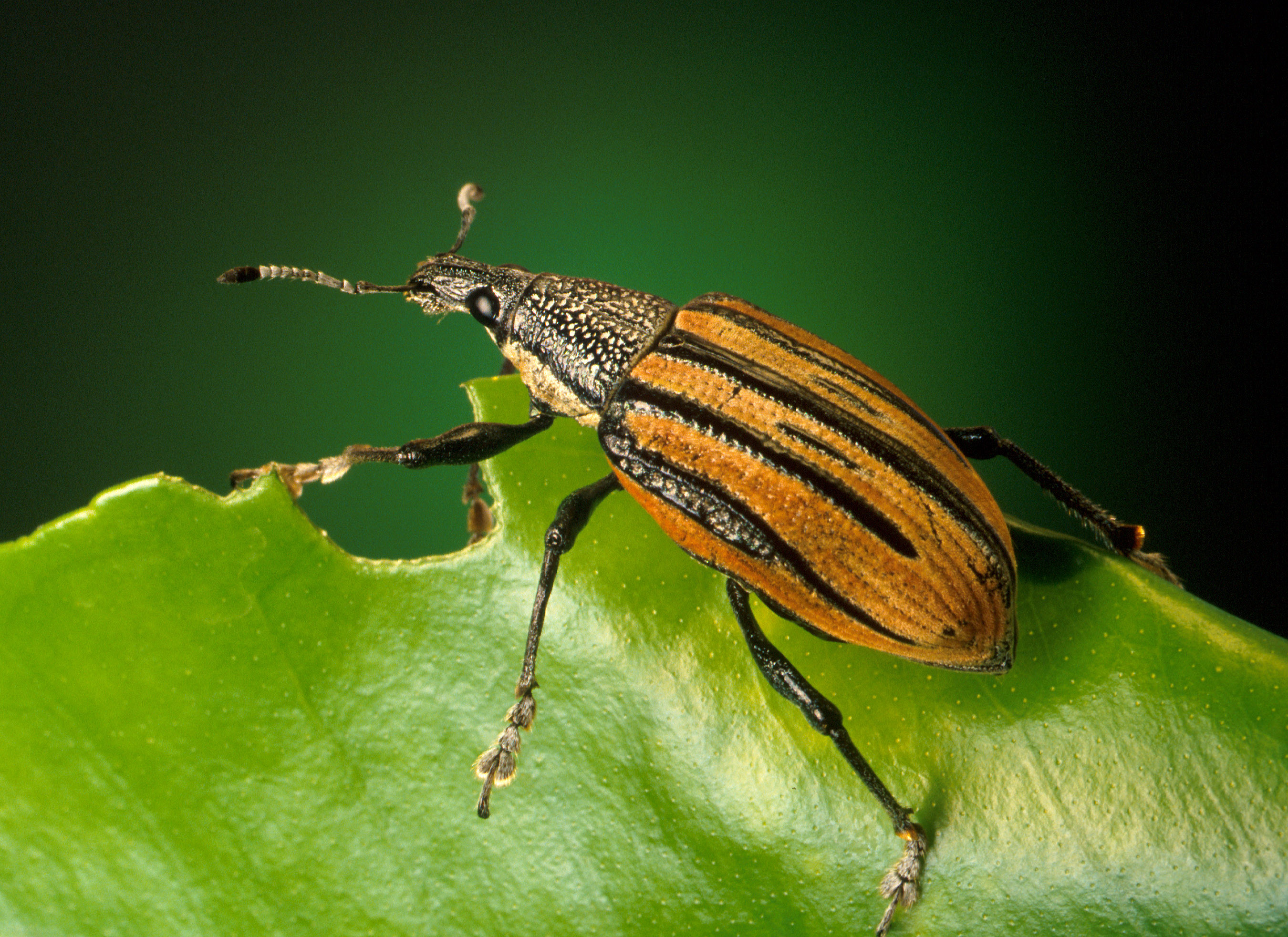 Adult citrus root weevil, Diaprepes